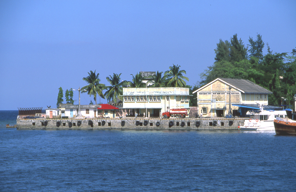 The South Andaman, India. Chatham Island off Port Blair. Photograph by Henryk Kotowski